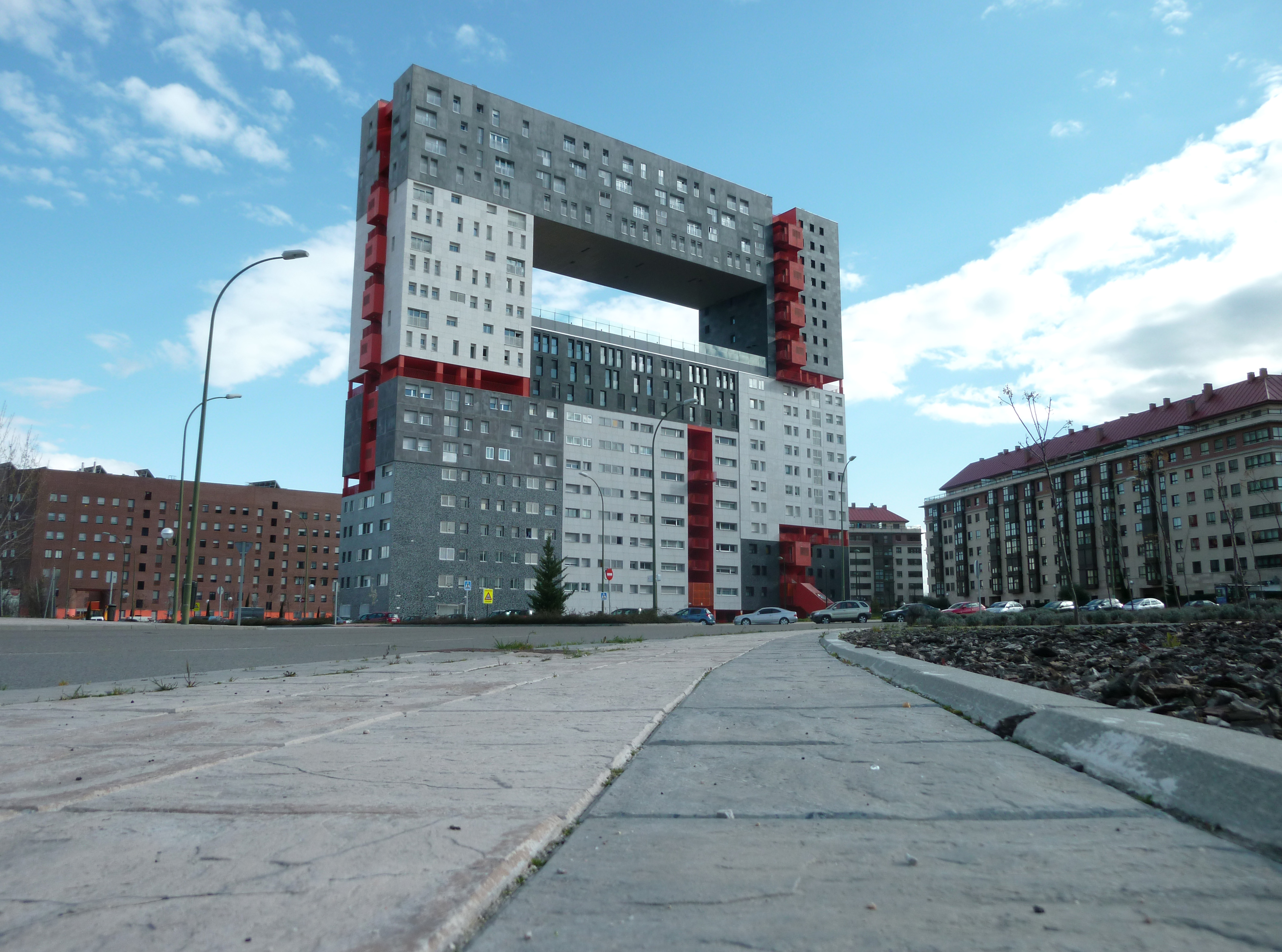 View of Mirador Building in Madrid (Spain).